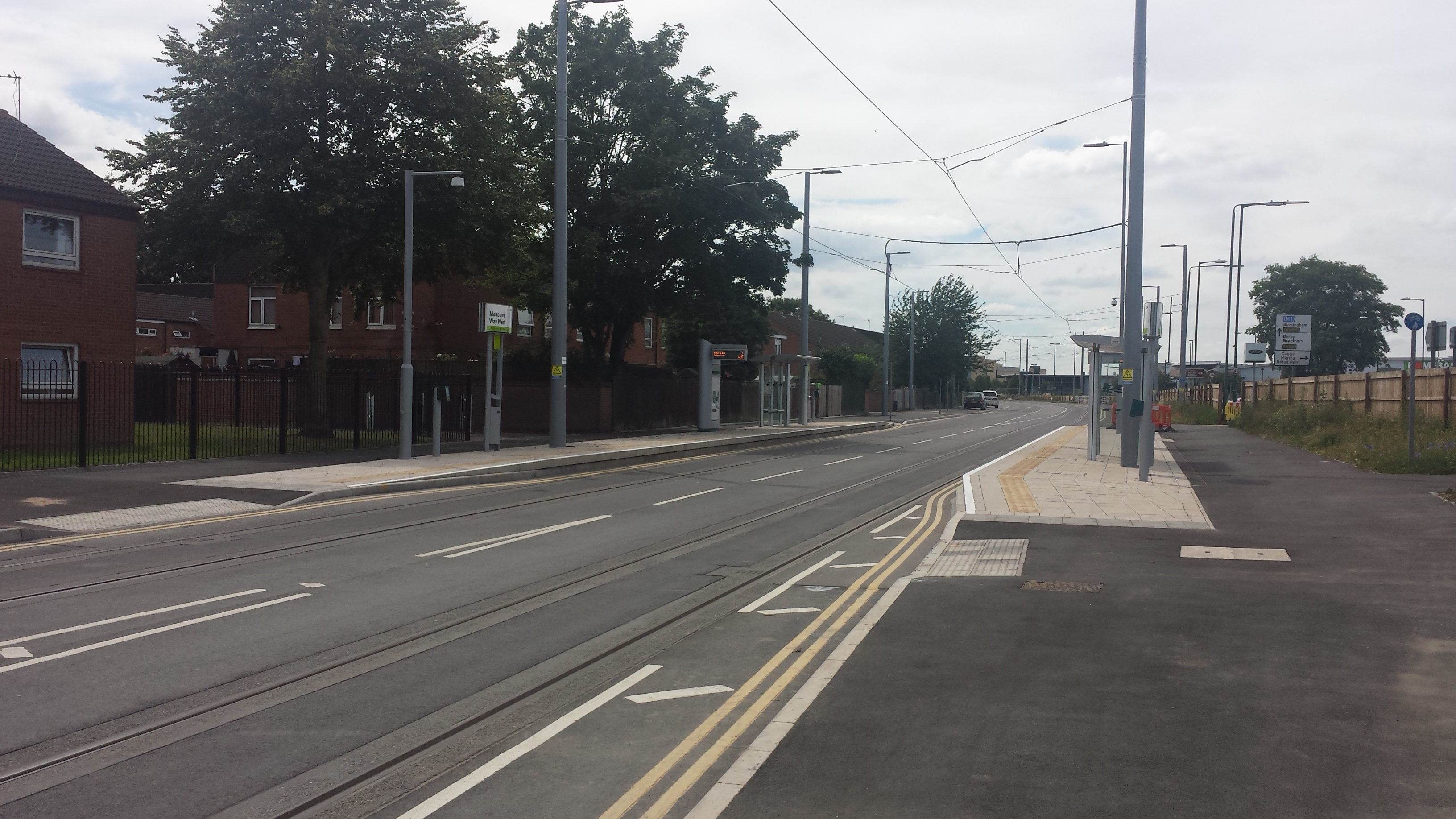 Meadows Way West tram stop, during test phase and prior to opening